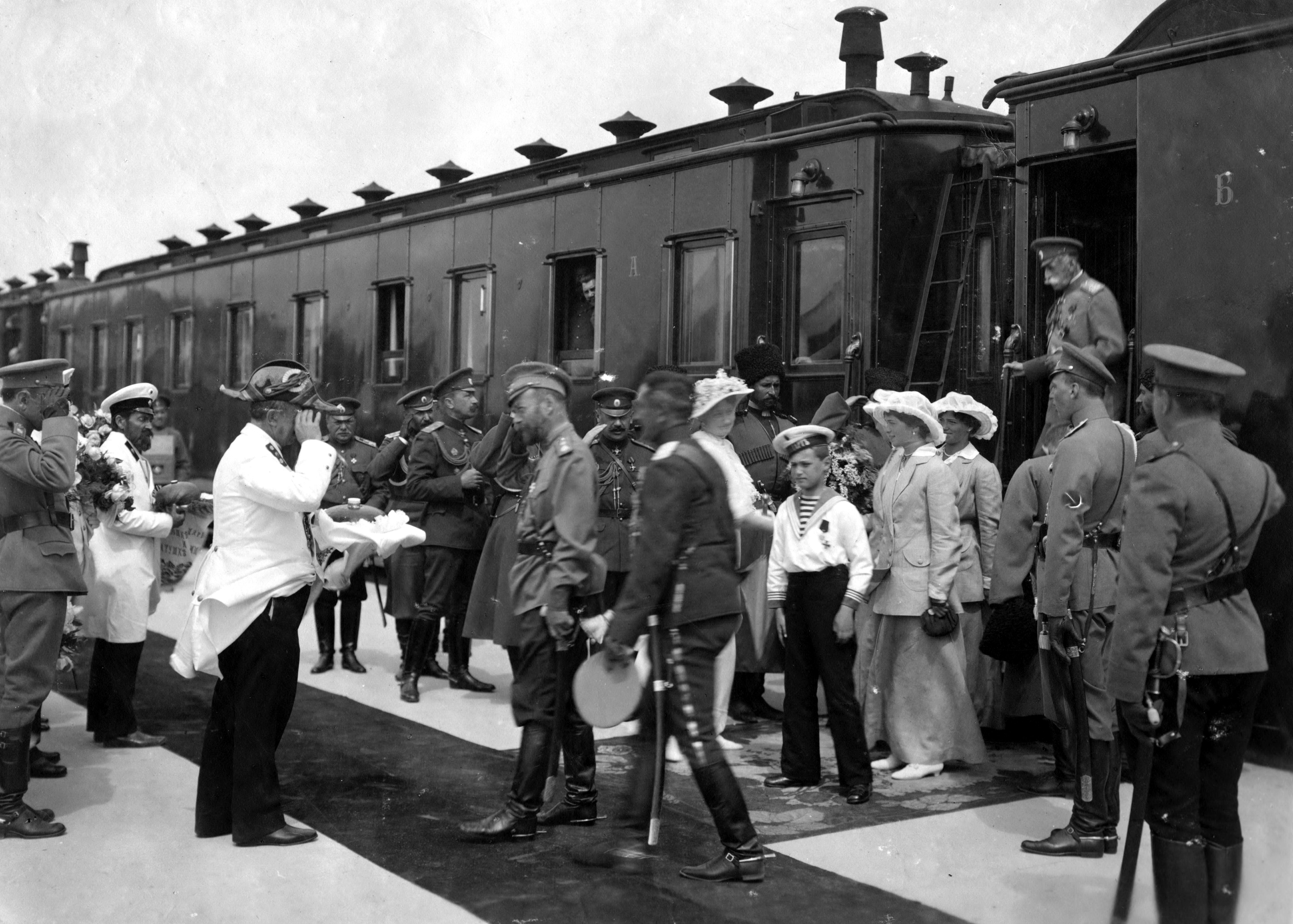 Emperor Nicholas II of Russia, Empress Alexandra Feodorovna and their children Tsarevich Alexei Nikolaevich of Russia, Grand Duchesses Olga Nikolaevna and Maria Nikolaevna of Russia alongside the Imperial train in Yevpatoria. Imperial Household Minister Vladimir Frederiks just leaves the wagon.